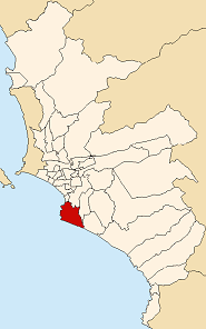 Map of Lima highlighting the district of Chorrillos Created by Tuomas Carrasco - Mar. 2005